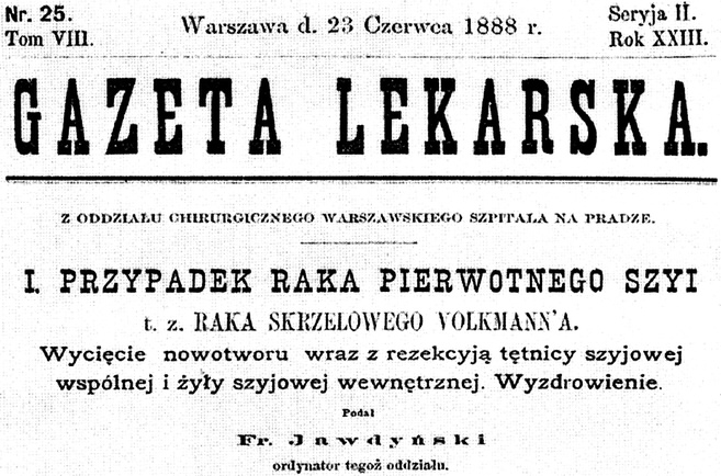 Original description of so called Jawynski-Crile method of neck disscetion (Jawdynski, 1888)